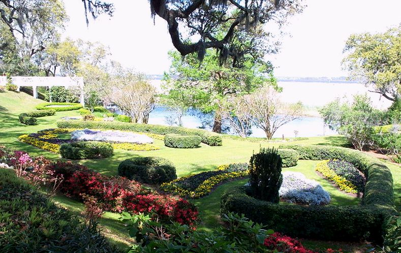 Luola's Chapel at Orton Plantation, North Carolina. Photographed 04/12/2008 Photograph by Janet Cooper-Bridge